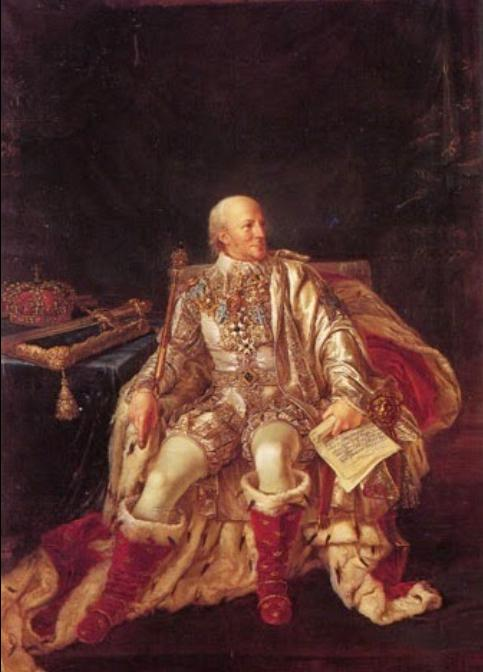 King Carl XIII of Sweden, Carl II of Norway